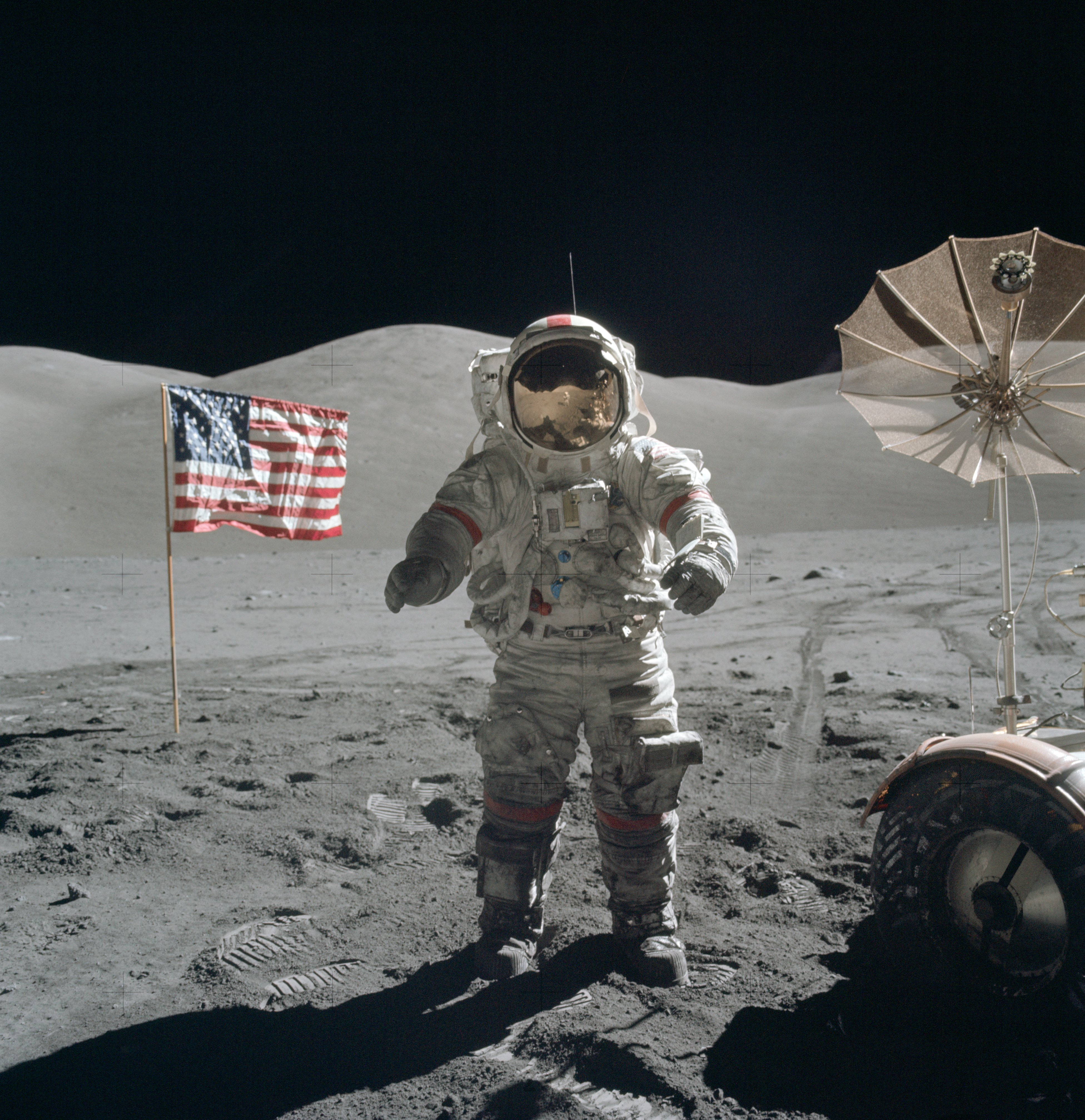 In December of 1972, Apollo 17 astronauts Eugene Cernan and Harrison Schmitt spent about 75 hours on the Moon, in the Taurus-Littrow valley, while colleague Ronald Evans orbited overhead. Near the beginning of their third and final excursion across the lunar surface, Schmitt took this picture of Cernan flanked by an American flag and their lunar rover's umbrella-shaped high-gain antenna. The prominent Sculptured Hills lie in the background while Schmitt's reflection can just be made out in Cernan's helmet. The Apollo 17 crew returned with 110 kilograms of rock and soil samples, more than from any of the other lunar landing sites. And after thirty years, Cernan and Schmitt are still the last to walk on the Moon. (description taken from File:As17-140-21391c1.jpg uploaded by User:Derbeth)